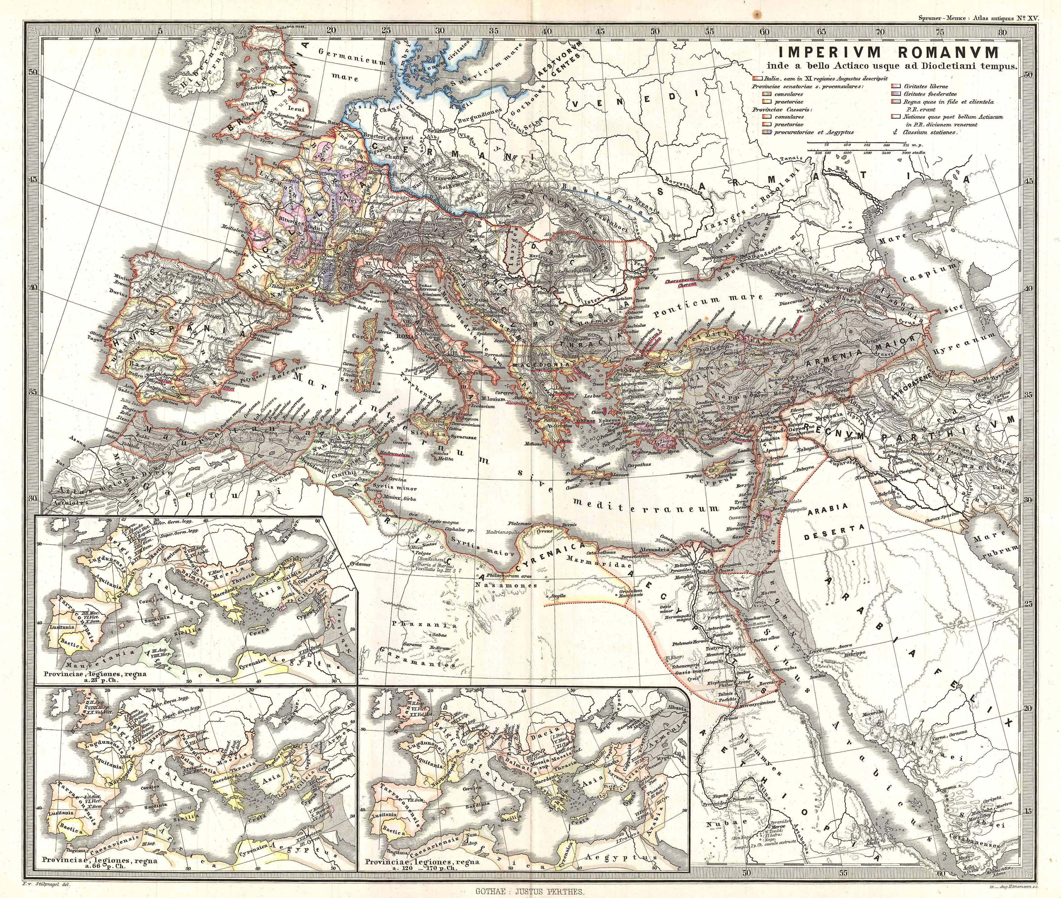 A particularly interesting map, this is Karl von Spruner’s 1865 rendering of the Roman Empire under Diocletian (224 – 311 AD). Centered on Italy, this map covers the whole of continental Europe extending as far north as Ireland, as far east as the Caspian Sea, and extending southwards to include Roman holdings in North Africa, Egypt, and the Middle East. Like most of Spruner’s work this example overlays ancient political geographies on relatively contemporary physical geographies, thus identifying the sites of forgotten towns and villages, the movements of armies, and the disposition of lands in the region. This particular example focuses on the tumultuous period prior to the ascendency of the Emperor Diocletian. Diocletian presided over a bloated empire verging on decline and to prevent this established the Tetrarchy, or rule of four, in which the Empire was divided in to four segments under four different emperors. This set the stage of the division of the Roman Empire in eastern and western empires under Diocletian’s heir, Christian emperor Constantine. Three insets in the lower left quadrant show the disposition of provinces, legions and kingdoms at different periods. As a whole the map labels important cities, rivers, mountain ranges and other minor topographical detail. Territories and countries outlined in color. The whole is rendered in finely engraved detail exhibiting the fine craftsmanship for which the Perthes firm is known. Of particular interest to classical scholars.